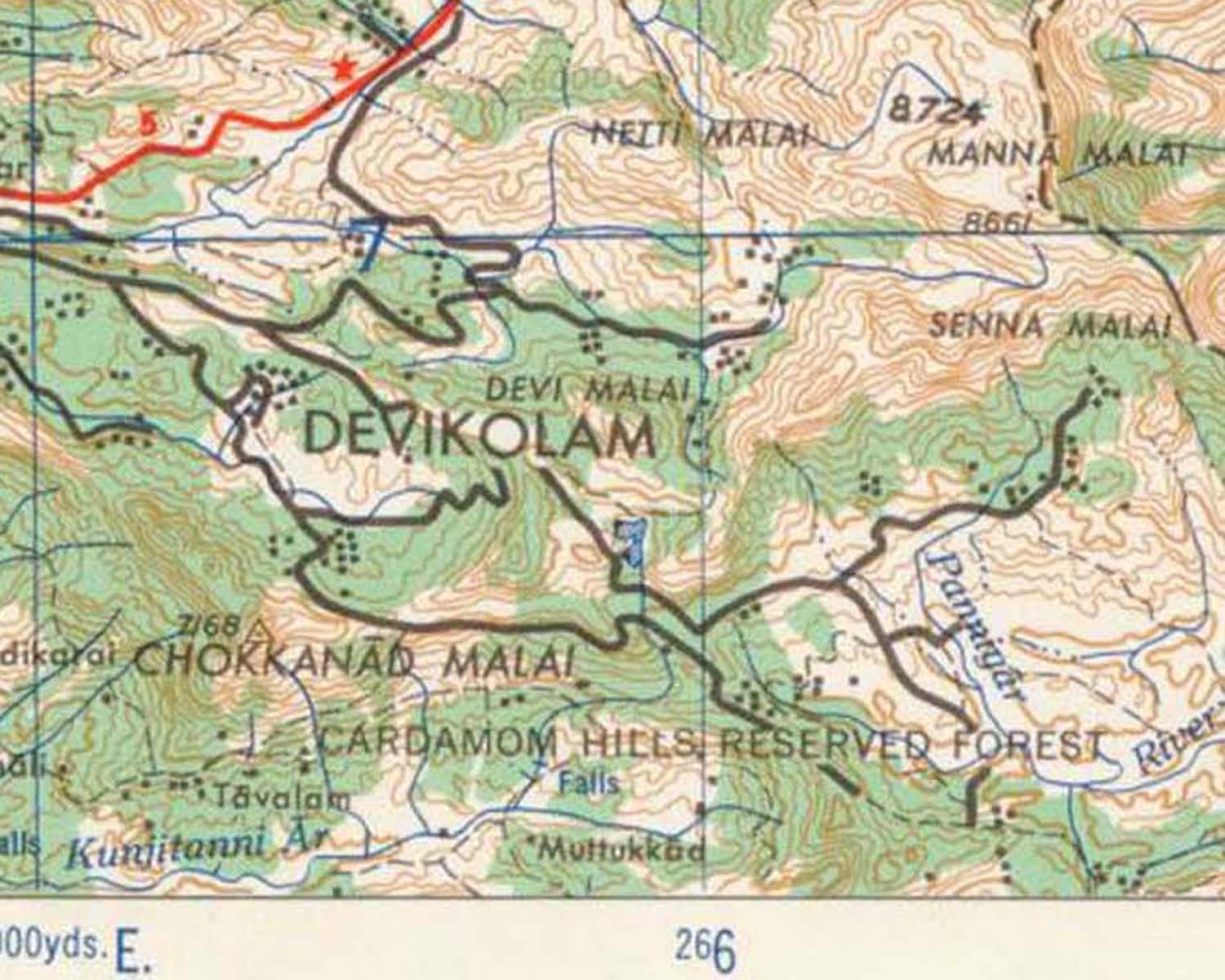 toposheet